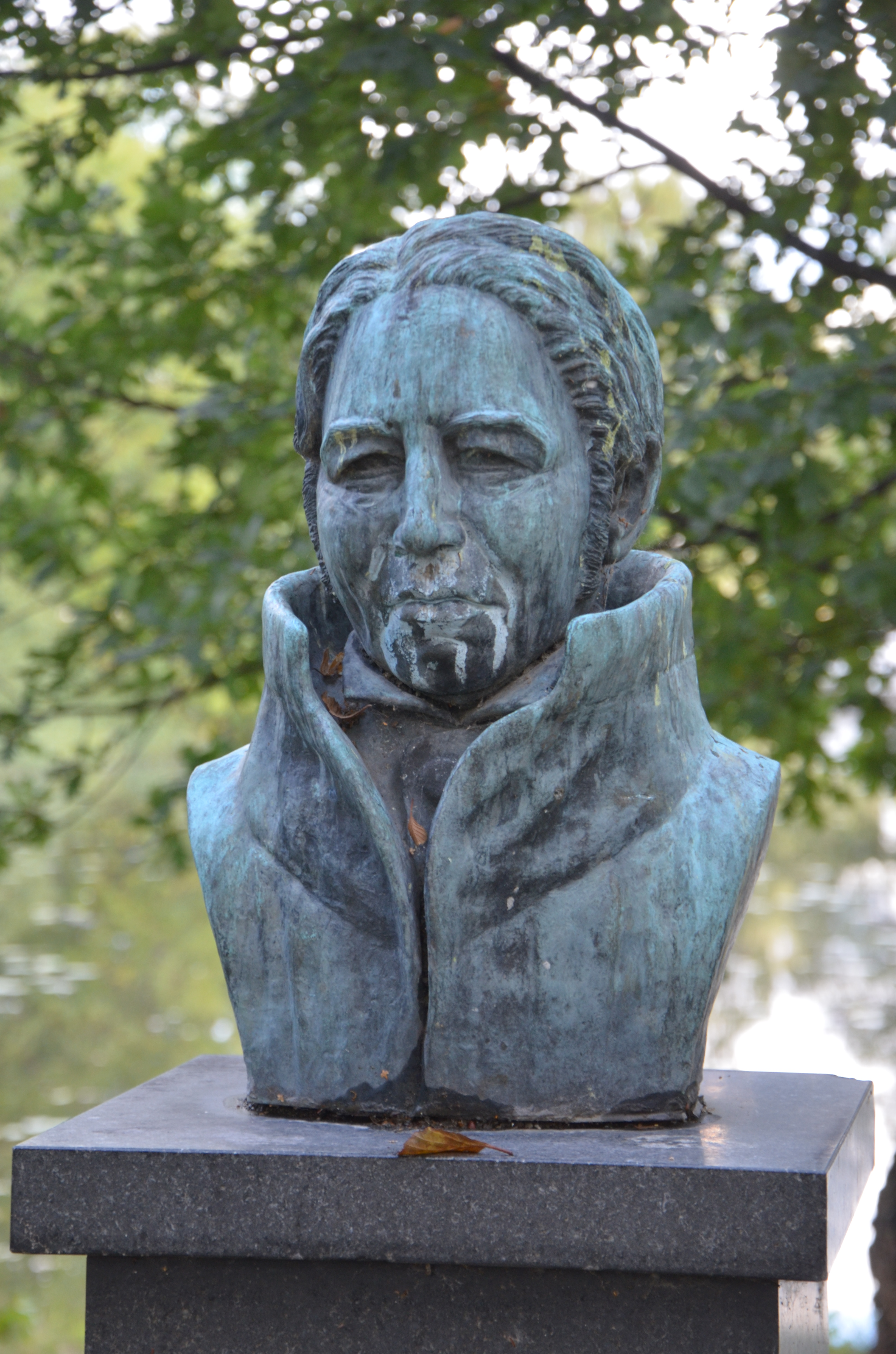 Anna Schötts byst av Jakob Henrik af Forselles i Sala